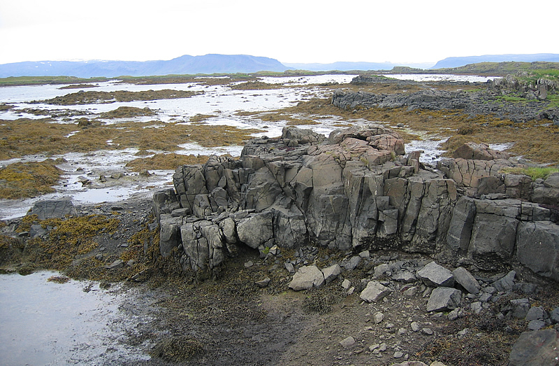 Skáleyjar á Breiðafirði, photo by Salvor Gissurardóttir, june 2006 coastline on the road from the landing place to the farm